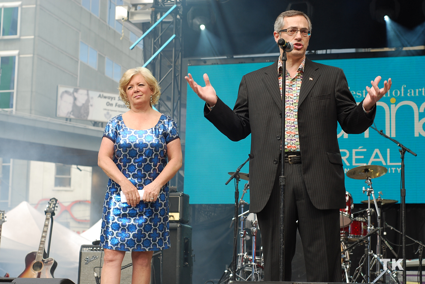 Left: Janice price. Right: Tony Clement.